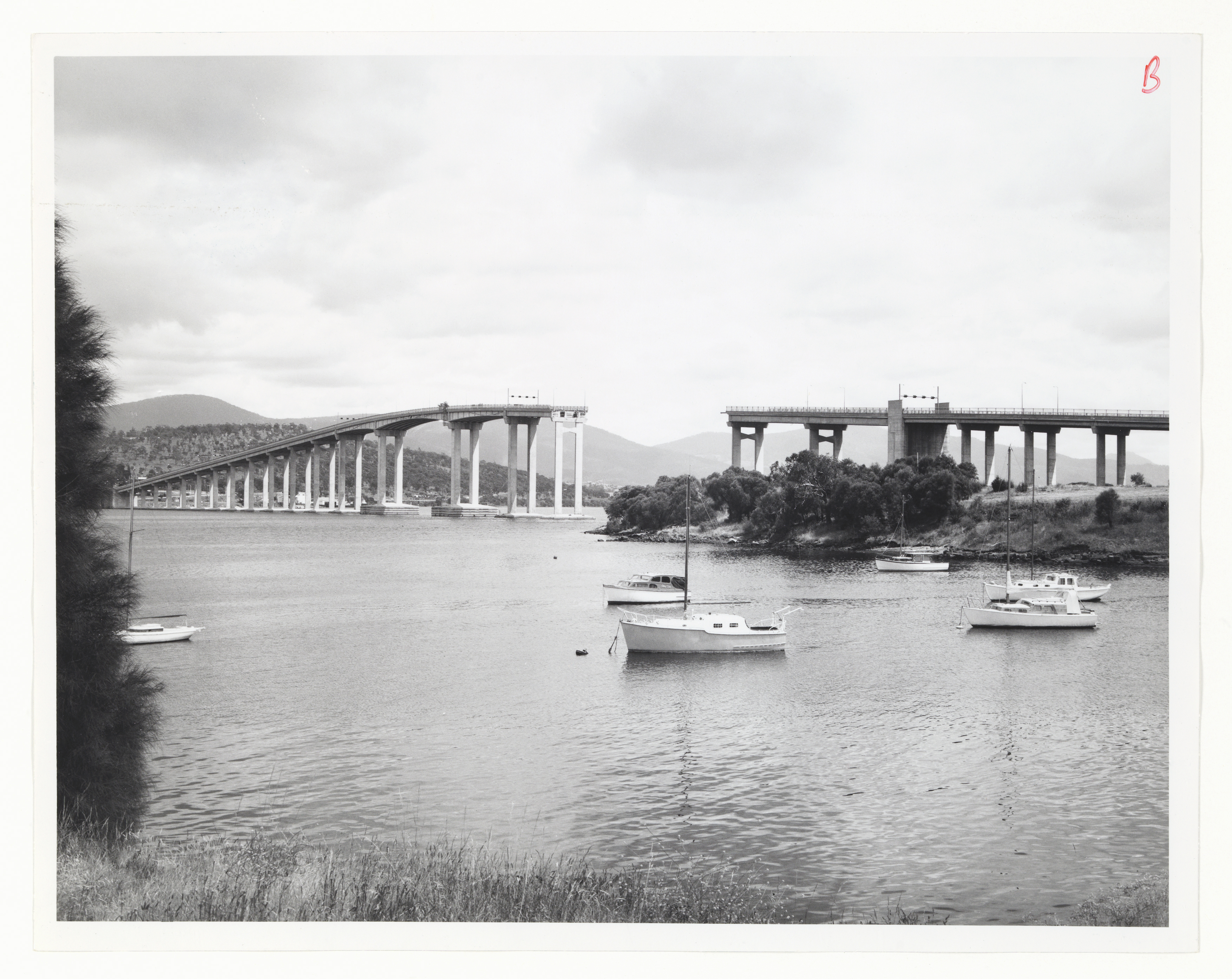 Tasmanian Archives and Heritage Office: CBE43-6-1-1 Images from the TAHO collection that are part of The Commons have ‘no known copyright restrictions’, which means TAHO is unaware of any current copyright restrictions on these works. This can be because the term of copyright for these works may have expired or that the copyright was held and waived by TAHO. The material may be freely used provided TAHO is acknowledged; however TAHO does not endorse any inappropriate or derogatory use.